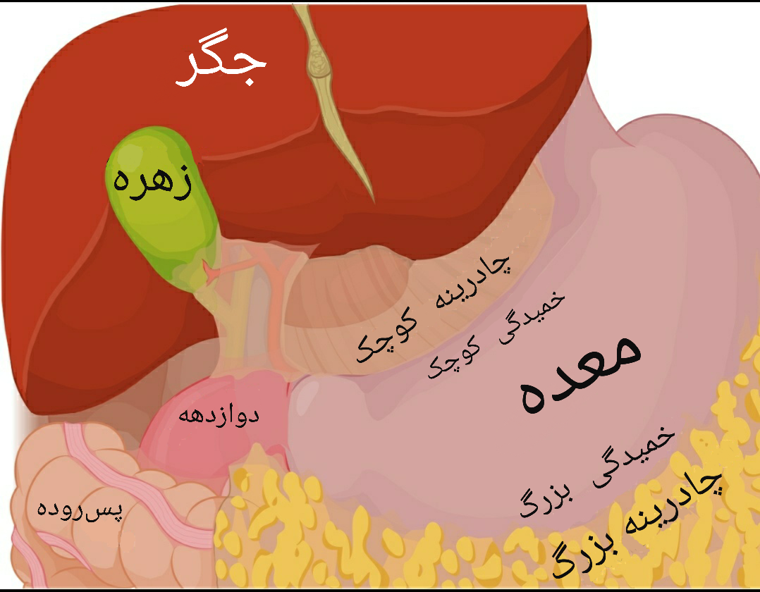 The Persian version of